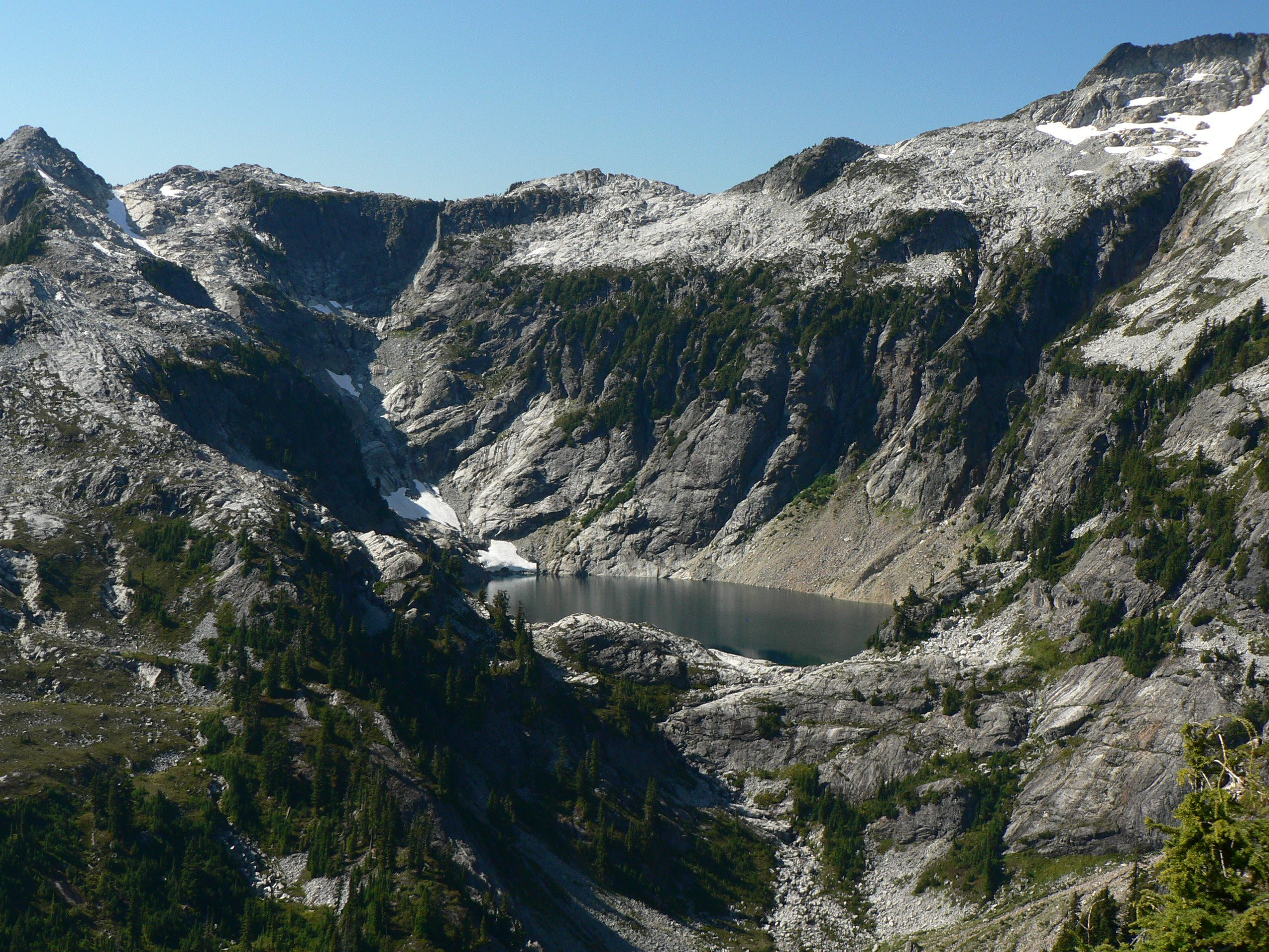 Thornton Lakes Upper Thornton Lake, 5040 feet, 1536 m